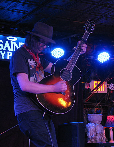 Singer-songwriter, guitarist, and producer Aaron Lee Tasjan from New Albany, Ohio, on chair on stage at The Saint, in Asbury Park, NJ USA on July 8, 2014. Photo by LHCollins. Tasjan has worked and toured with Peter Yarrow, The New York Dolls, BP Fallon, Alberta Cross, Freedy Johnston, Semi Precious Weapons, and Drivin' N' Cryin'.